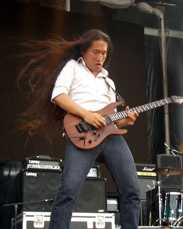 Herman Li, guitarist from DragonForce band, at Ozzfest 2006.